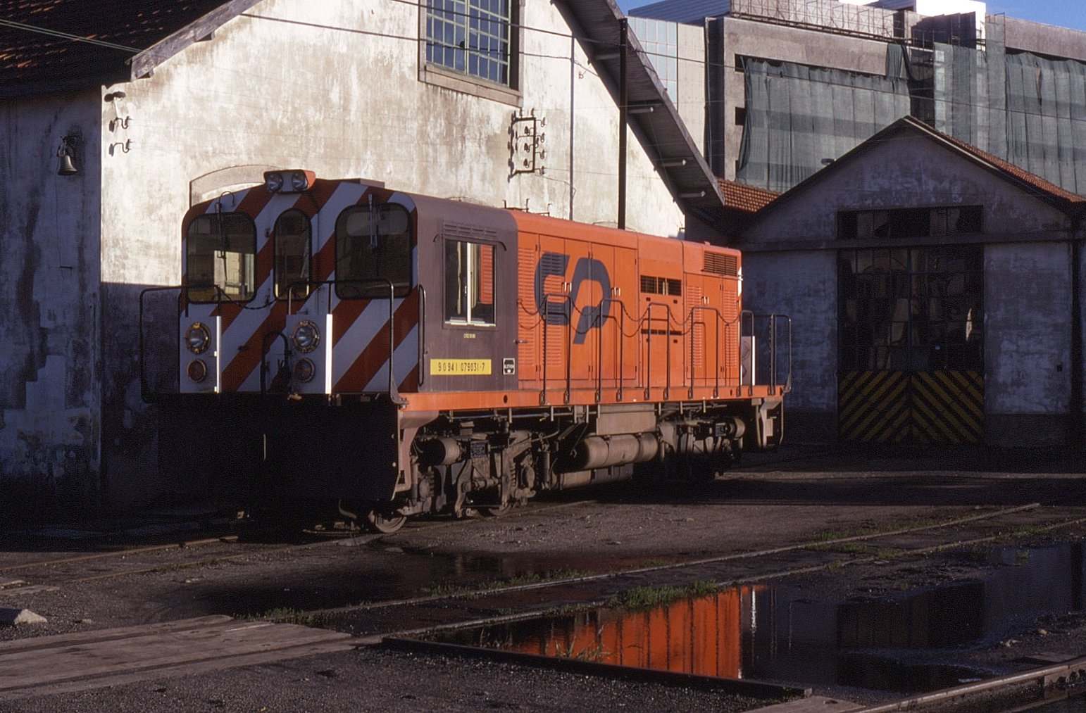 9031 is seen "on shed" at Porto's metre gauge depot, Boa Vista. The entire Porto metre gauge system has since either closed, converted to metro or standard gauge operation. Hard to believe these locos worked suburban trains out of Trindade terminus in Porto.